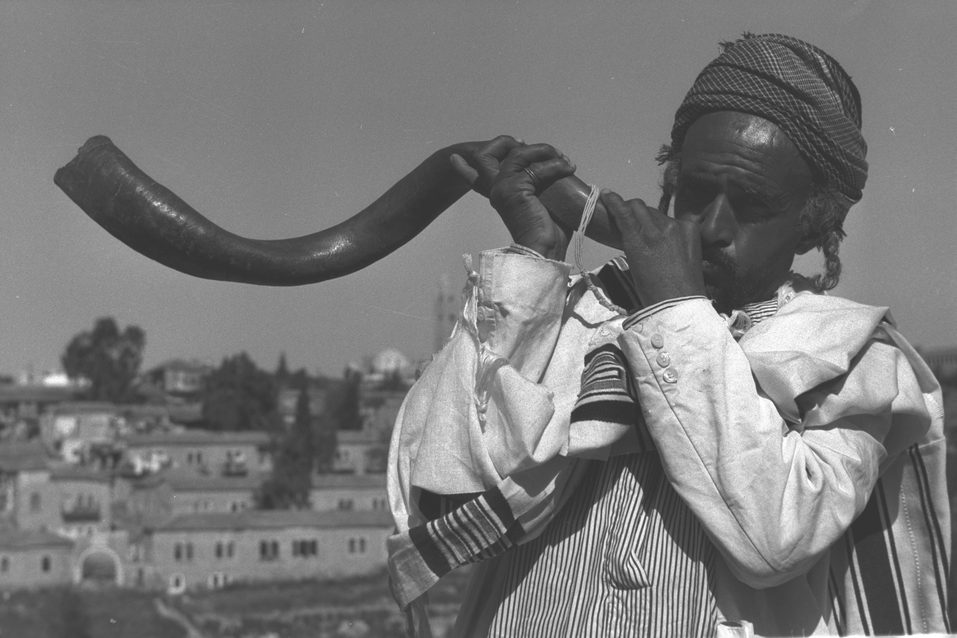 PILGRIMS GREETED BY THE BLAST OF THE SHOFAR ON THE TRADITIONAL PILGRIMAGE TO MT. ZION IN JERUSALEM DURING PASSOVER.